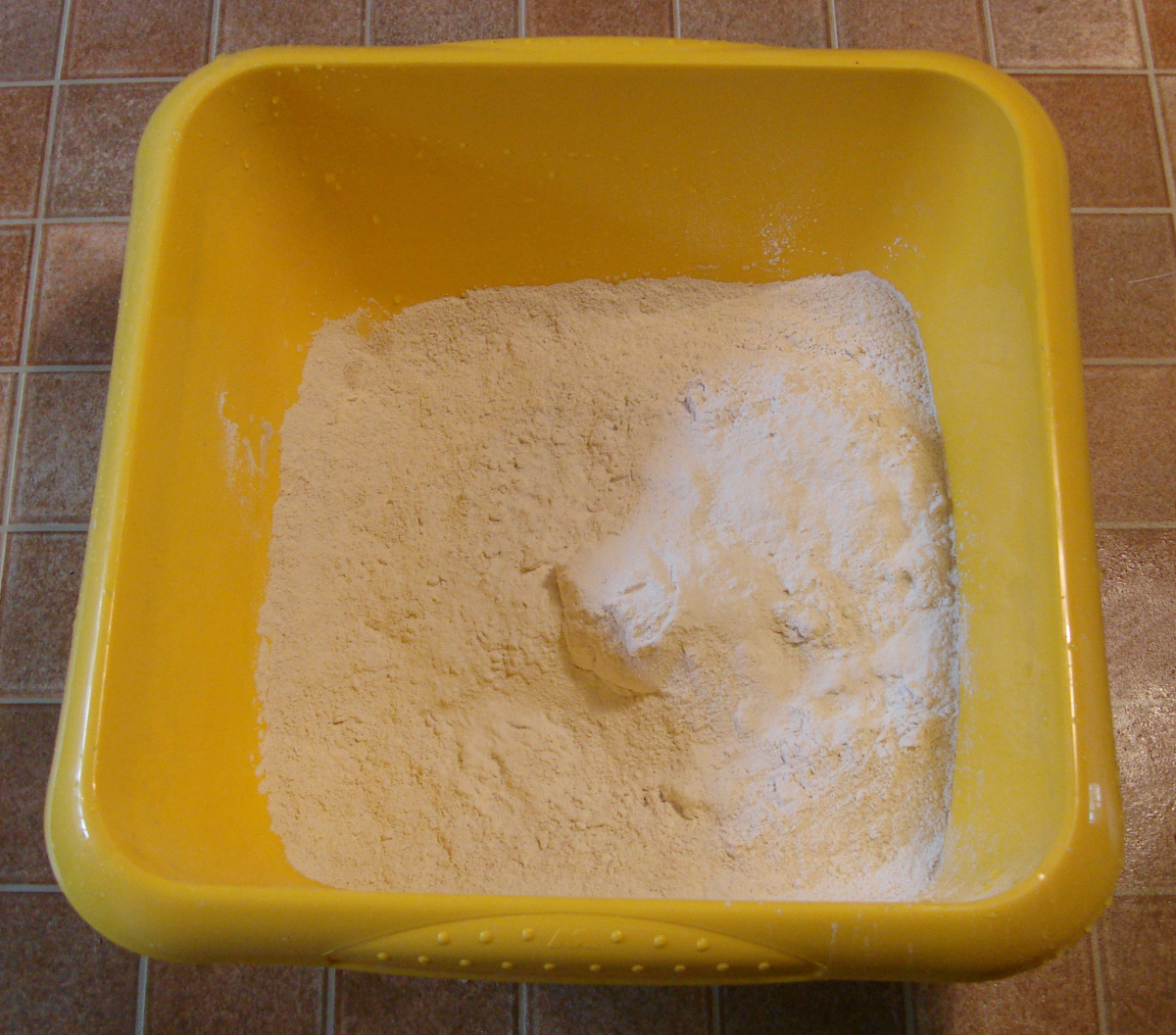 Plaster powder in a plastic vat